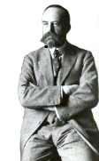 Louis de Brouckère in 1917, photograph used during the Socialist Peace Congress in Stockholm.